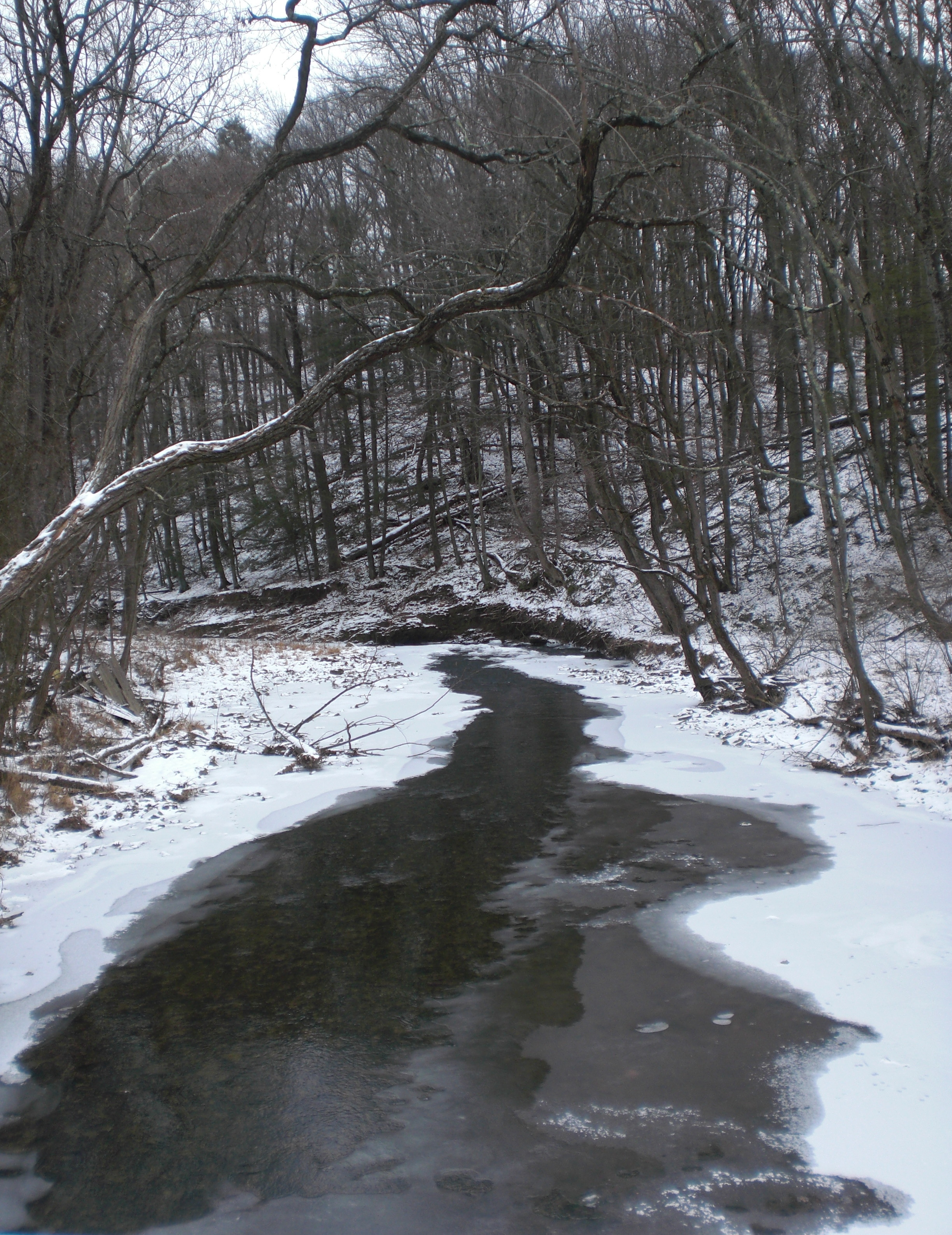 Hemlock Creek looking downstream from Ridge Road in the wintertime.